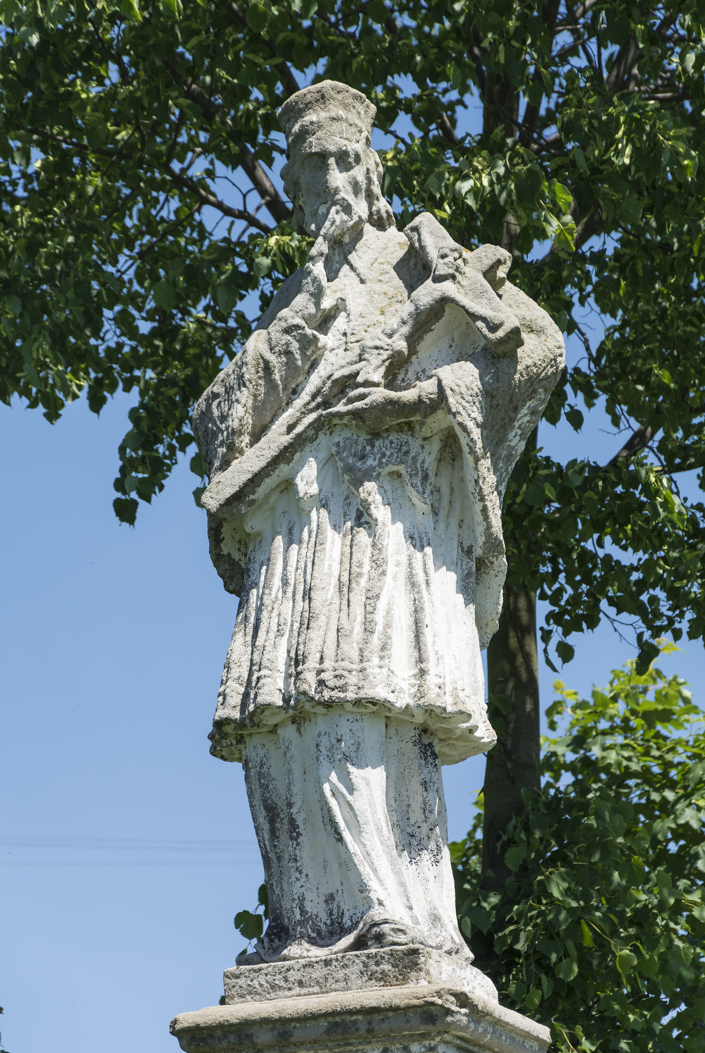 John of Nepomuk statue in Bożków